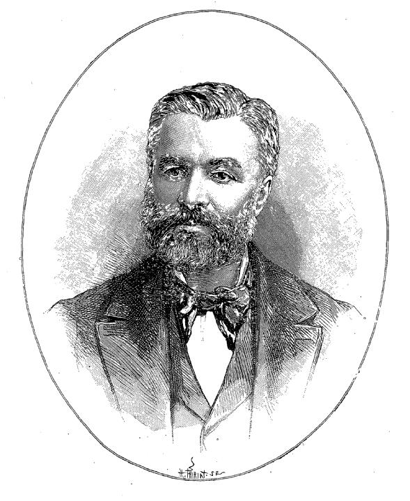 Jules Trousset, etching of Henri Thiriat.